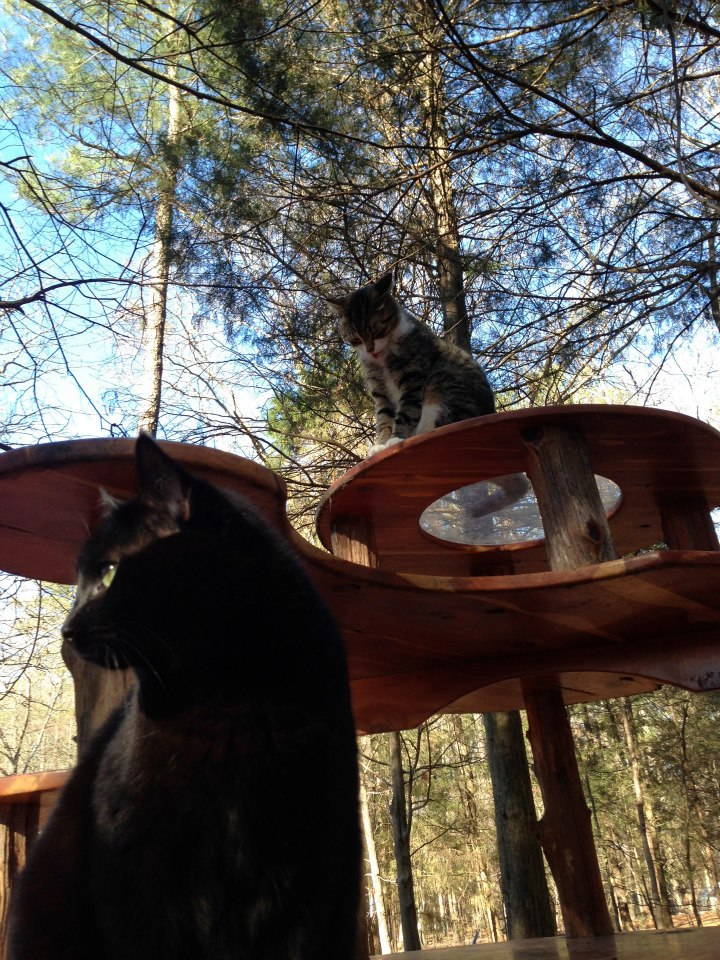 Cats playing on a climbing structure.